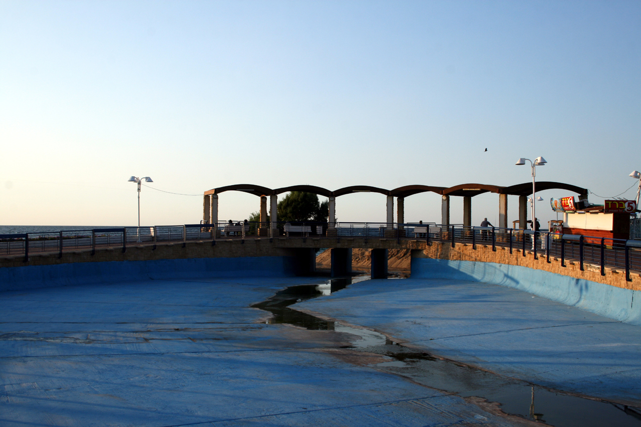 Nahariya - Embouchure riviere Ga'aton